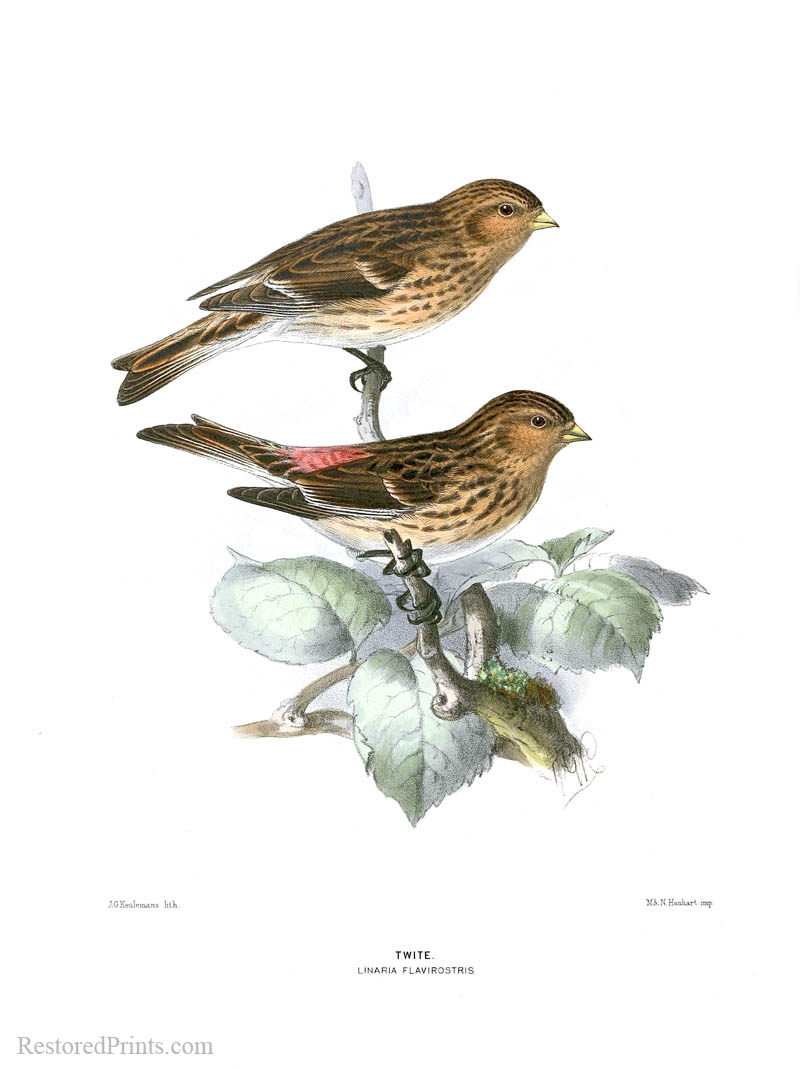 Twite by John Gerrard Keulemans for Henry Eeles Dresser's The History of the Birds of Europe including all the Species Inhabiting the Western Palaerctic Region. Hand coloured lithograph. London 1870s. Restored image courtesy of